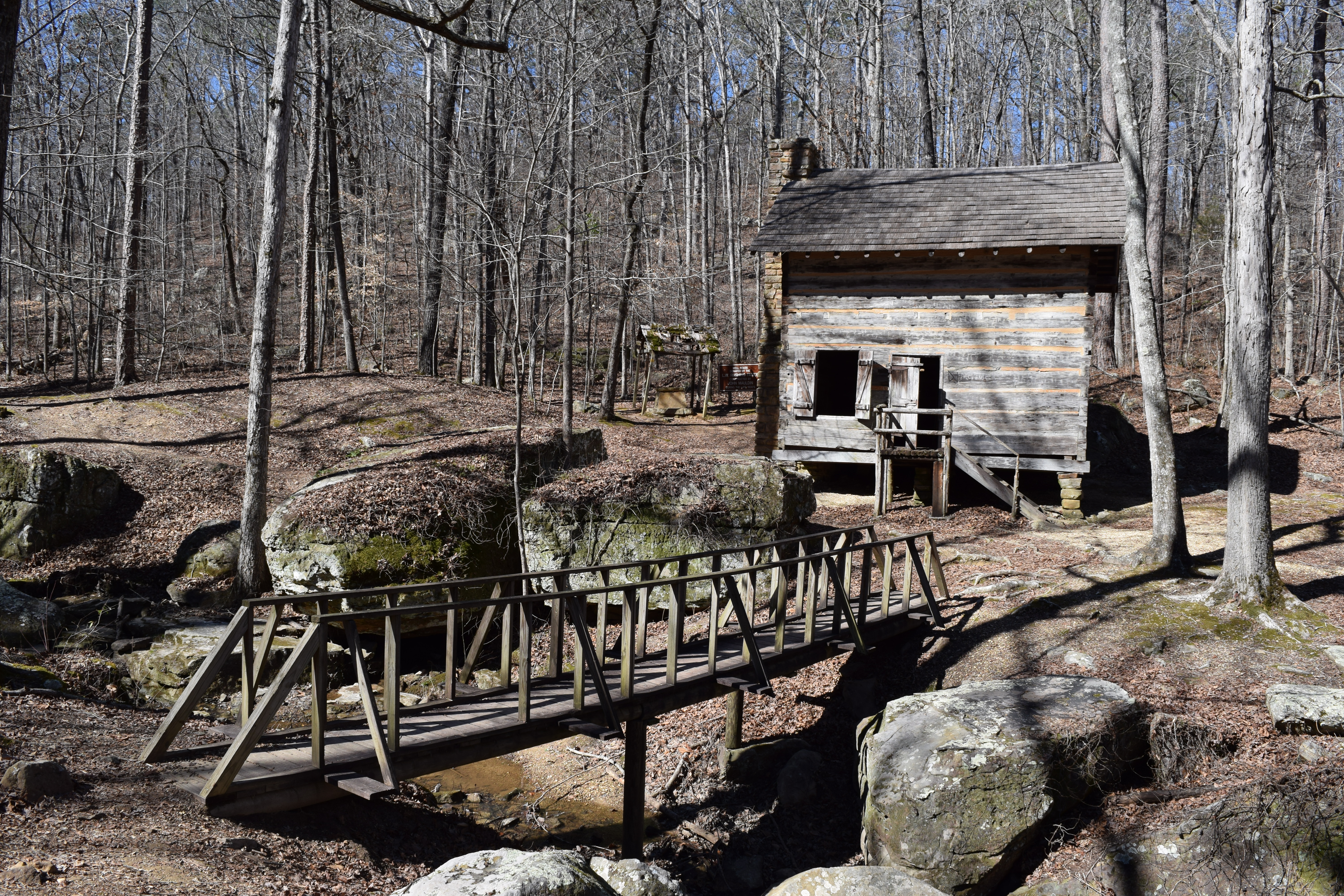 Footbridge and Pioneer Cabin in Tishomingo State Park, Mississippi